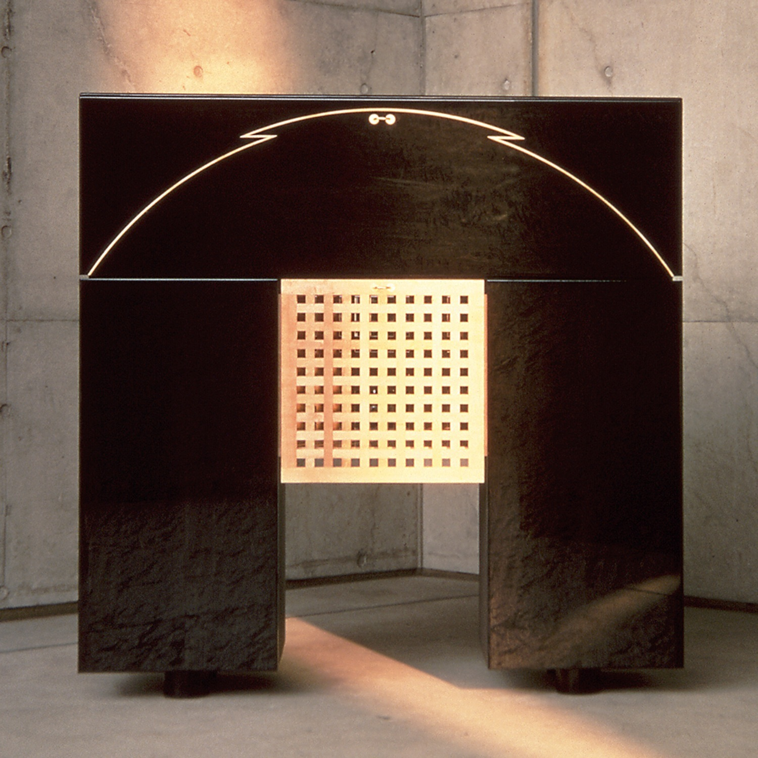 Works of KAWAKAMI Motomi 006-1986